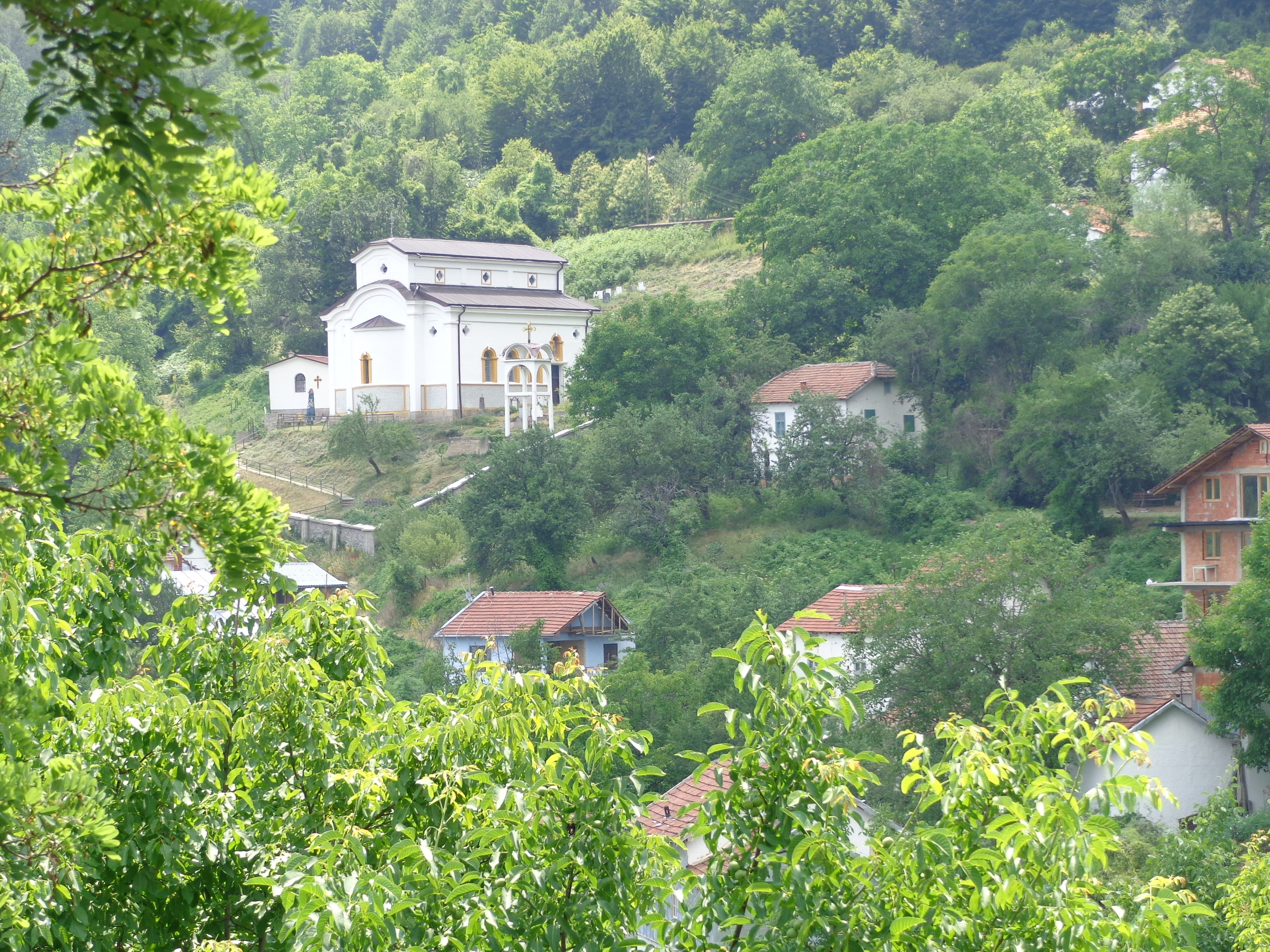 View of the village of Papradište, Čaška Municipality in Macedonia.